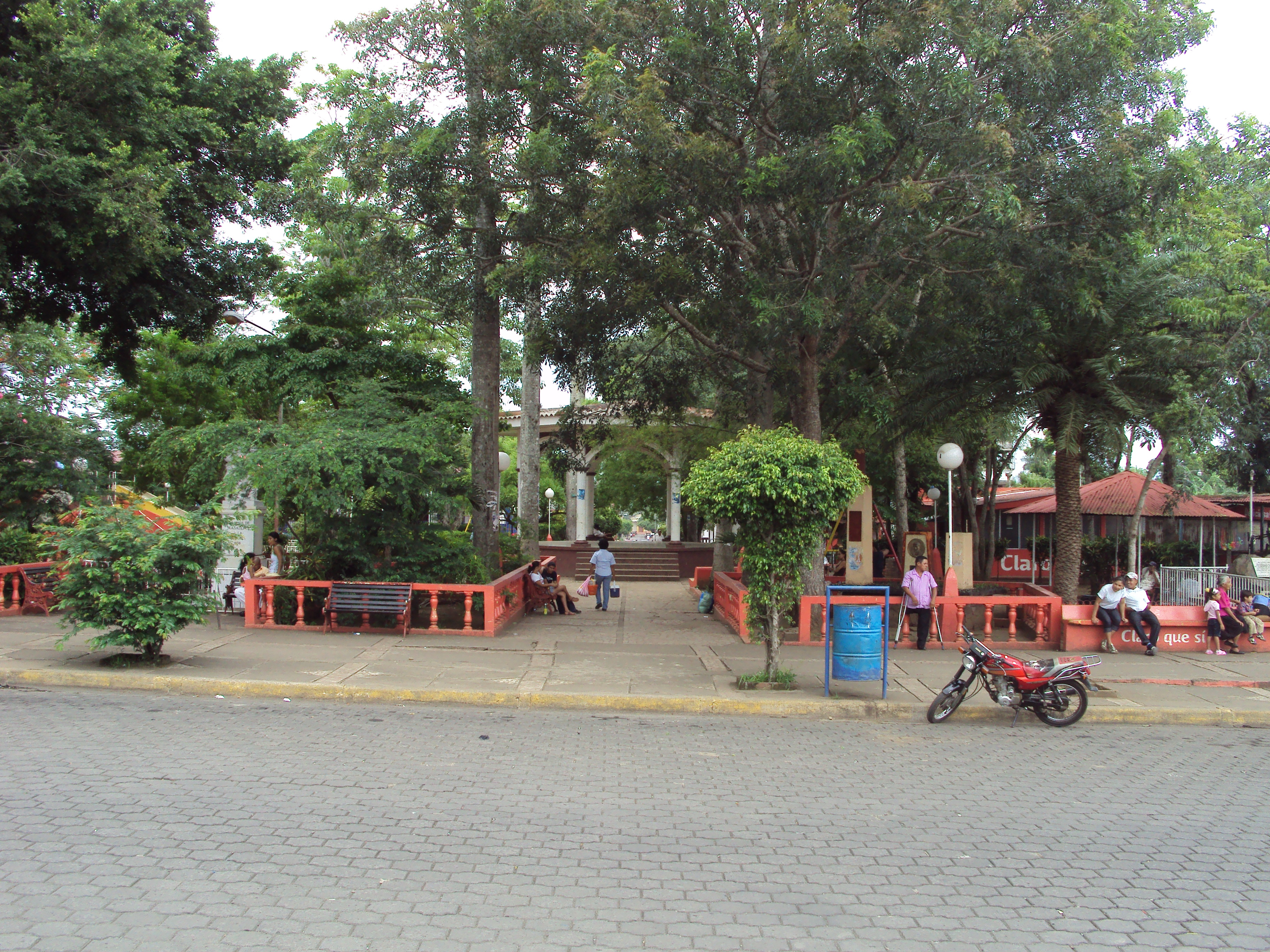 Central Park in Masatepe, Nicaragua.